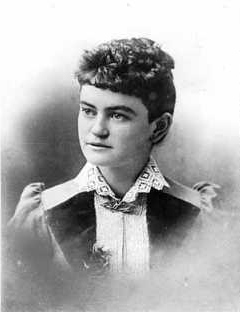 Eva McDonald Valesh (1866-1956), American journalist and labor rights activist. Photograph circa 1885.